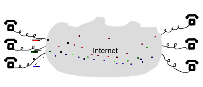 Diagram of a packet-switched telephone network.